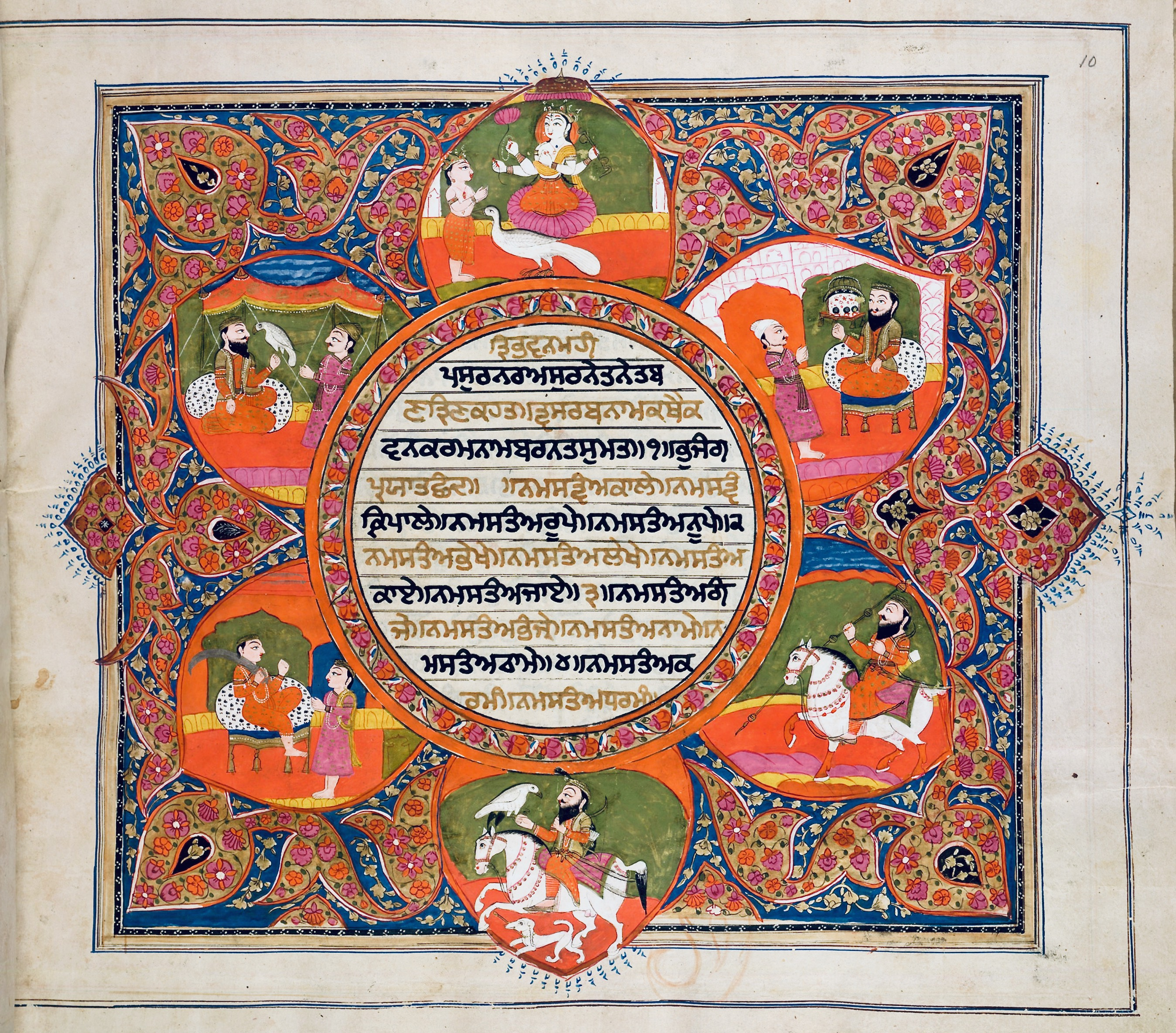 The British Library preserves a Dasam Granth manuscript in its collections. It was published before 1850 CE. It is a secondary Sikh scripture attributed to the tenth and last of the Gurus, Guru Gobind Singh (1666-1708). This is a photo of the frontispiece of the manuscript. The center has Gurmukhi text. Surrounding it clockwise: the top image is of the Hindu goddess Saraswati holding vina and other items with a peacock and a reverential boy standing. The second is a young adult seated on throne. The third is a warrior on a horse with some weapon in his right hand, his forehead marked with red band, carrying bow and arrows on his left shoulder. The fourth is similar to the third, but with a hunter's falcon on his right hand. The fifth shows him seated with a sword. The sixth shows him seated with a falcon on his left hand. According to curator notes of the British Library: It was written in Braj Hindi, Persian and Punjabi, and collated by Bhai Mani Singh in 1730. This manuscript, dating from between 1825 and 1850, includes a catalogue of weapons as well as devotional works and the Guru’s autobiography. BL manuscript: Or 6298 Another copy of this image is available on wikimedia commons Dasam.Granth.Frontispiece.BL.Manuscript.1825-1850.jpg This two dimensional artwork was published before 1850 CE. Wikimedia commons PD-Art guidelines apply.